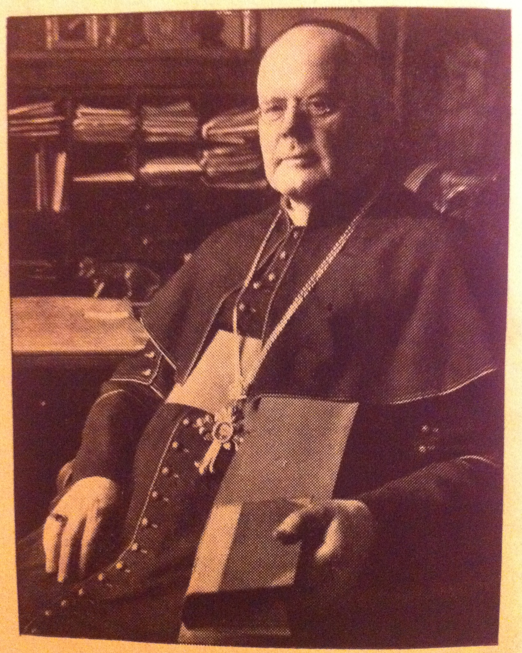 Jan Křtitel Pauly, a Czech Roman-Catholic canon priest, prelate (24th June 1869 - 20th December 1944)